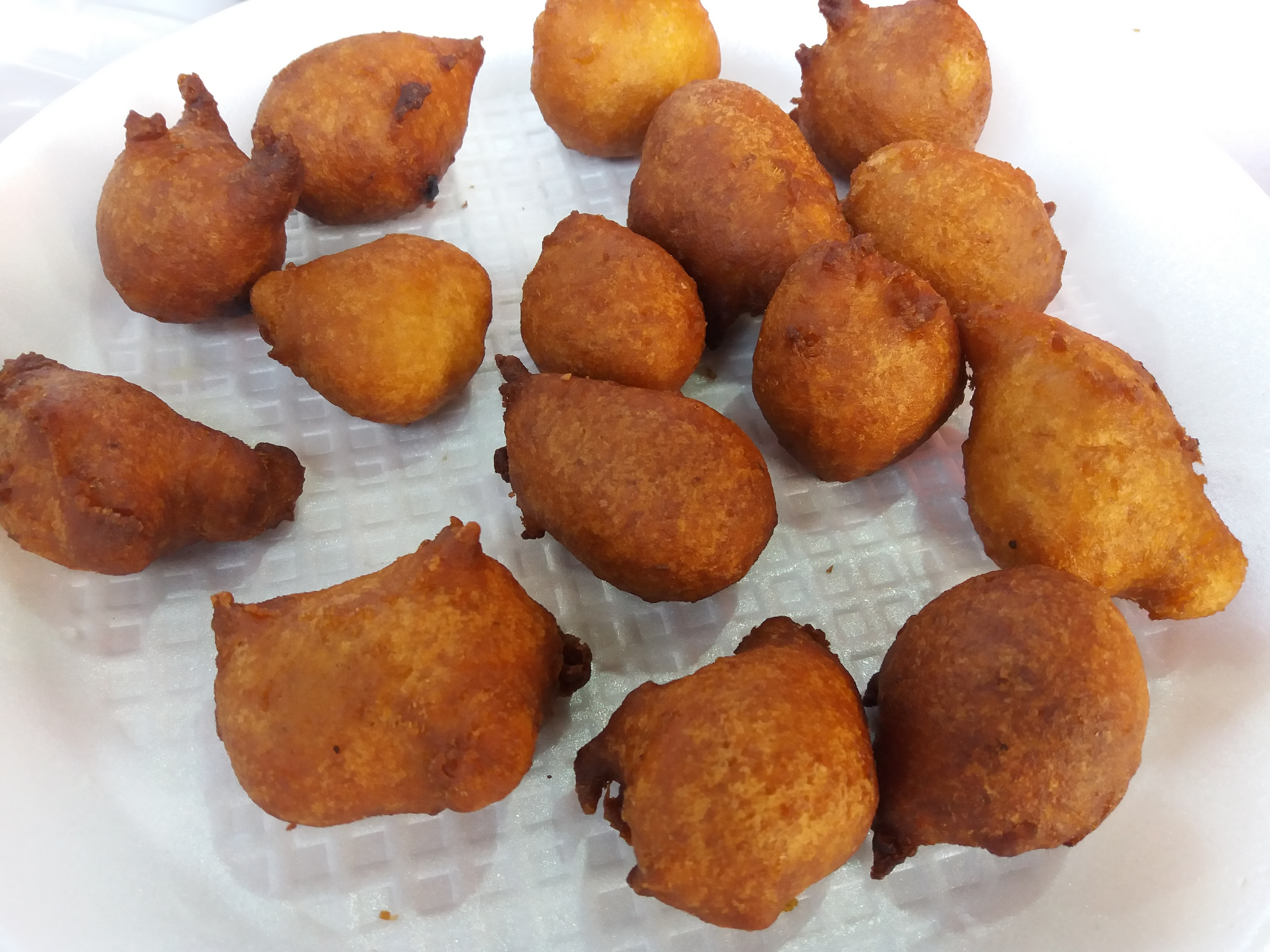 Tal bora